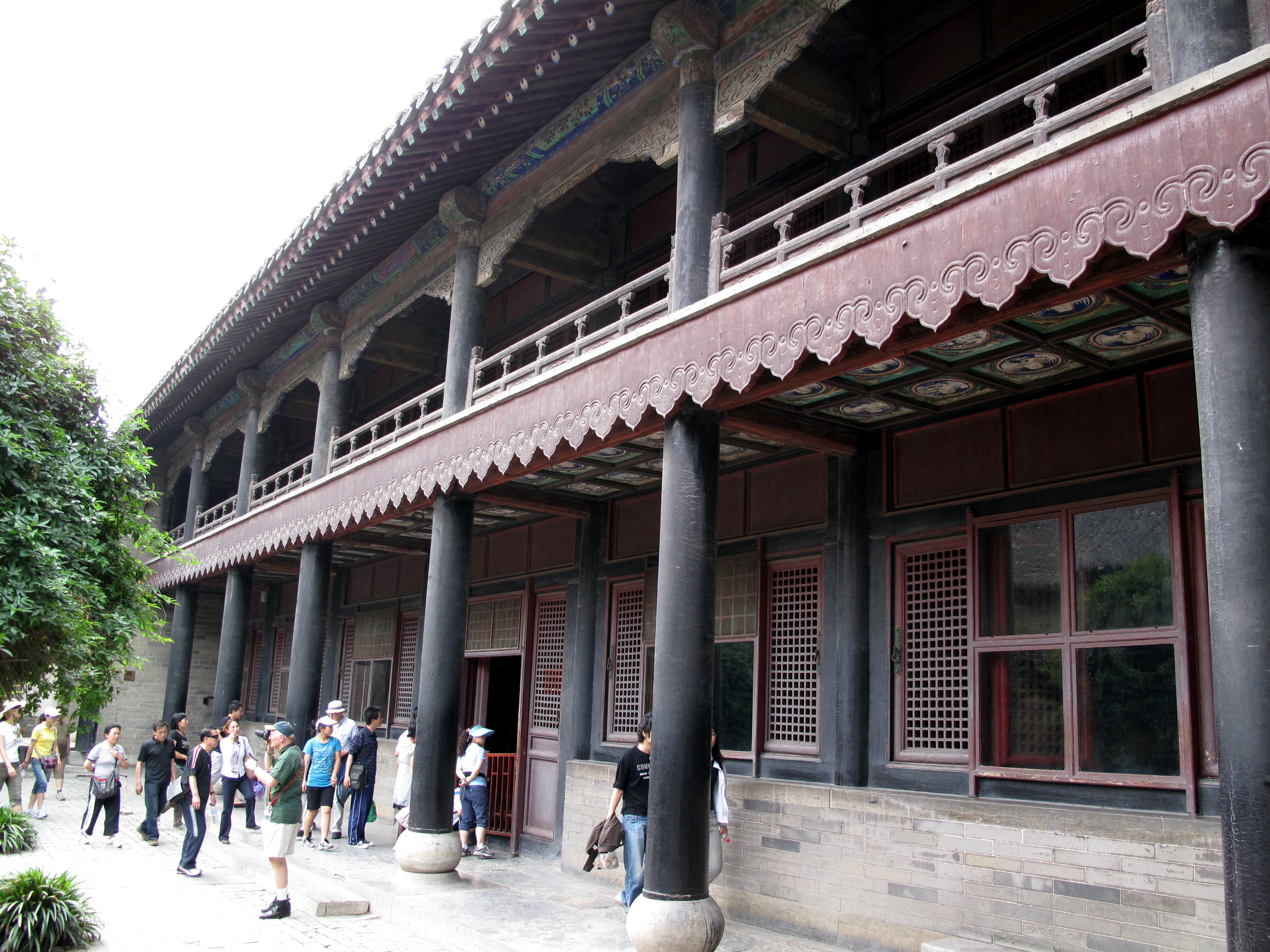 Living Quarters. Confucius Family Mansion, Qufu. As with all substantial family compounds, the living quarters were tucked away in the rear area of the compound, affording privacy and seclusion from the public activities out front. This building was the residence of Kong Decheng and his wife, during the time when his father was still the Duke.